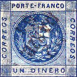 Stamp of Peru cancelled with a postmark that probably reads 'MARZO' (March).